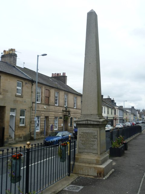 Sanquhar Declarations Monument, High Street